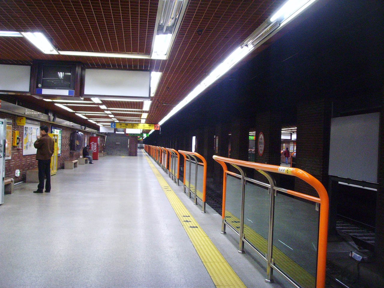 Beomeosa(Temple) Station (Busan Subway #1)